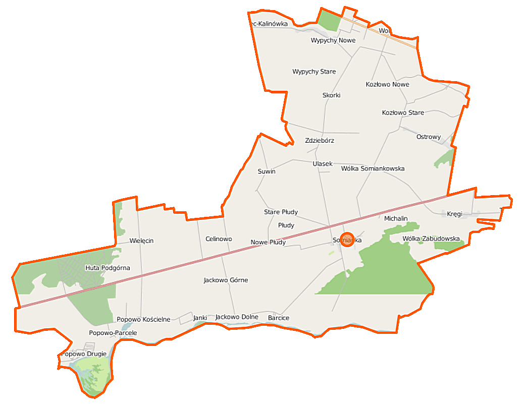 Map of Gmina Somianka, Poland This map of Somianka (gmina) was created from OpenStreetMap project data, collected by the community. This map may be incomplete, and may contain errors. Don't rely solely on it for navigation. Border coordinates52.641021.1113←↕→21.395552.5056